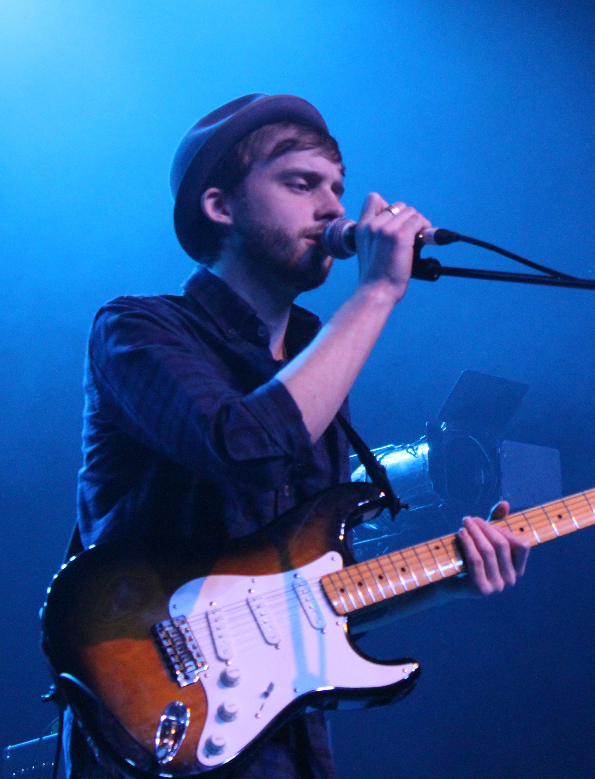 Jaymes Young at Fonda Theatre in November 2014